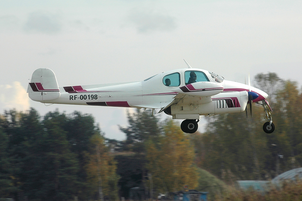 Let L-200 Morava Author: Dmitry A. Mottl email: dm_at_mottl.ru